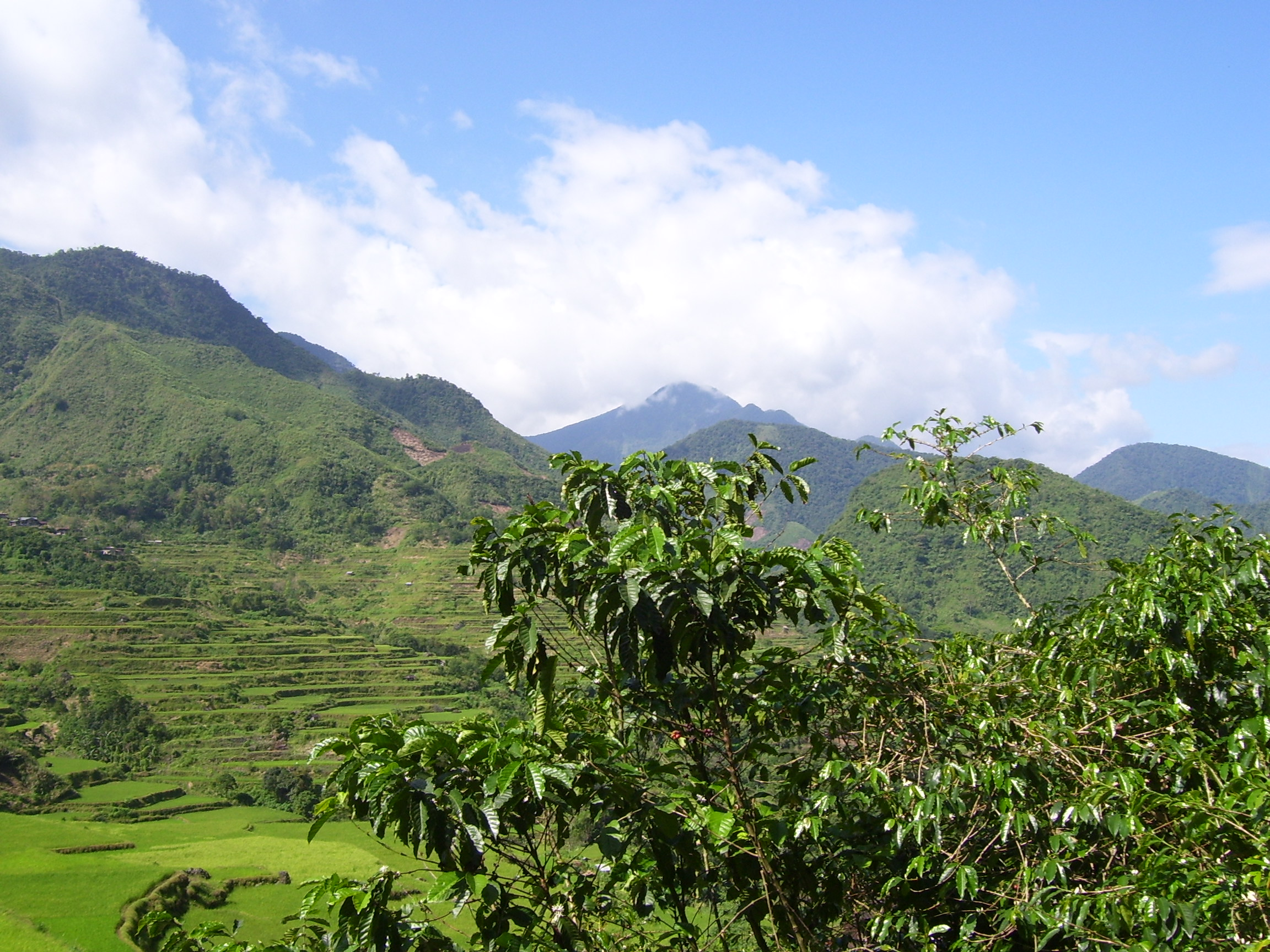 Binubulauan viewed from village of Bangtitan, Kalinga Province, Philippines.